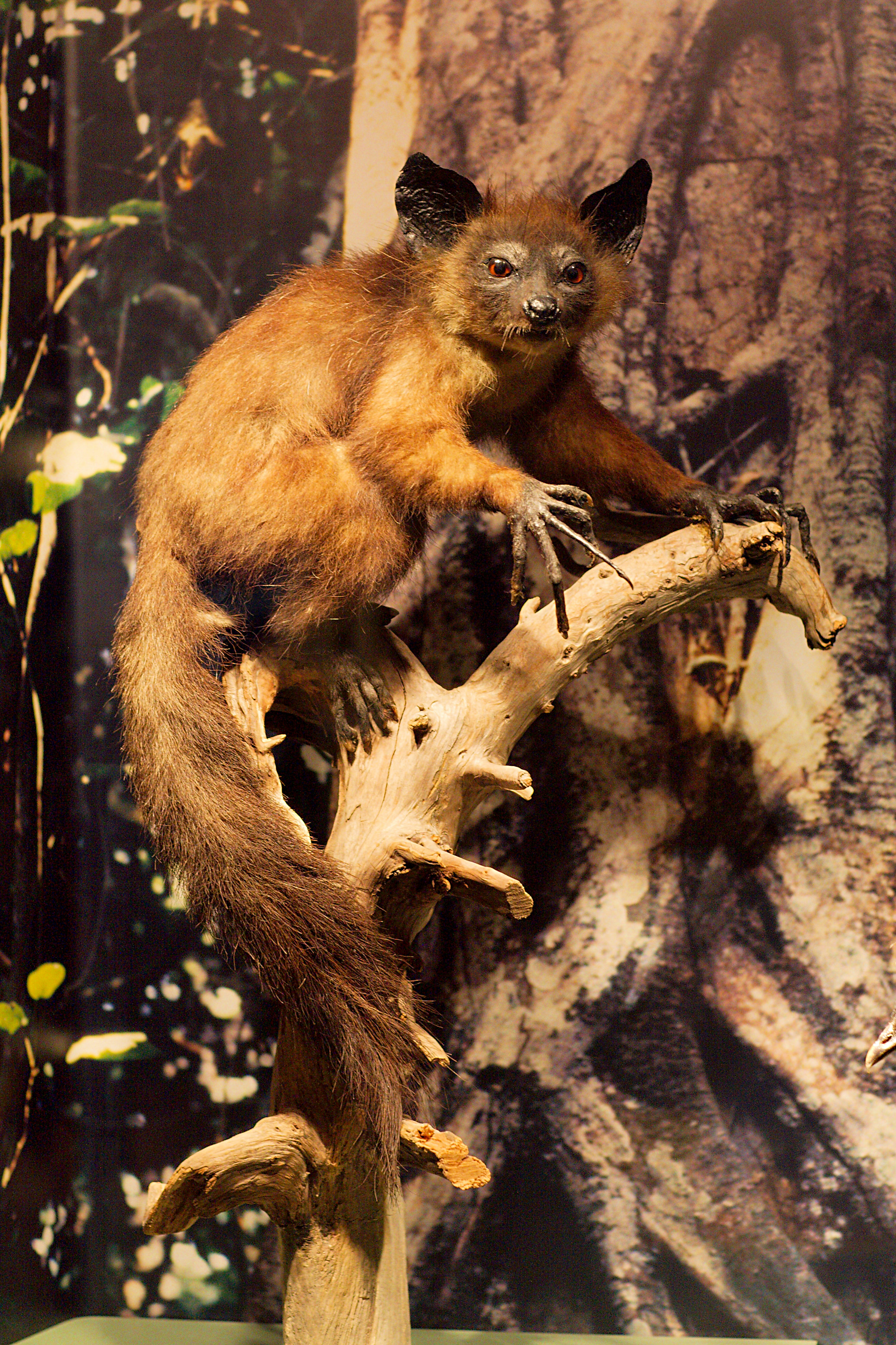 Daubentonia madagascariensis (stuffed) Photographed in "Haus der Natur" Salzburg, Austria